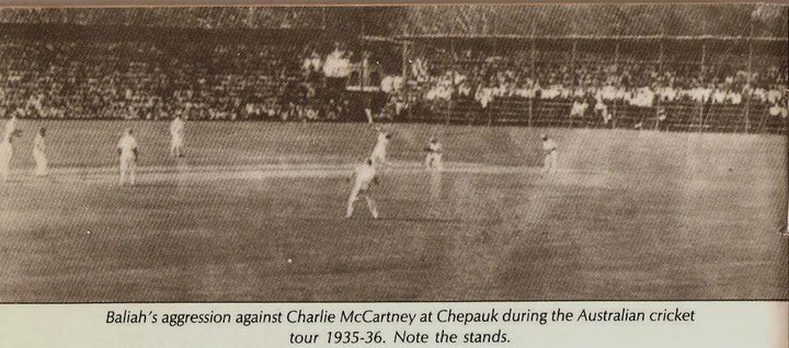 Baliah's aggression against XCharlie McCartney at Chepauk during the Australian cricket tour 1935-36. Note the stands.